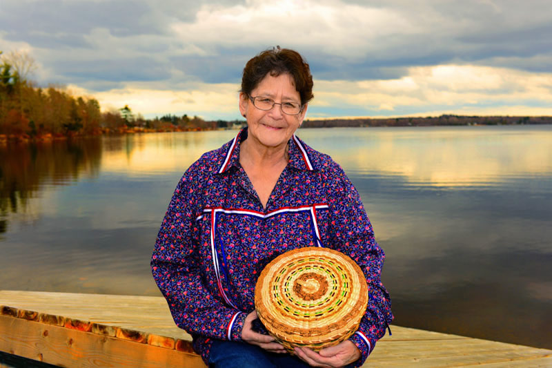 The matriarch of four generations of Passamaquoddy basketweavers, Molly Neptune Parker began weaving baskets at a young age, using the scraps of ash wood that fell to the floor as her mother worked. Today, Parker leads efforts to share this tradition with young people, encouraging the continuance of this art form for generations to come.